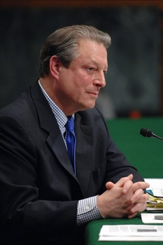 Al Gore's Hearing on Global Warming